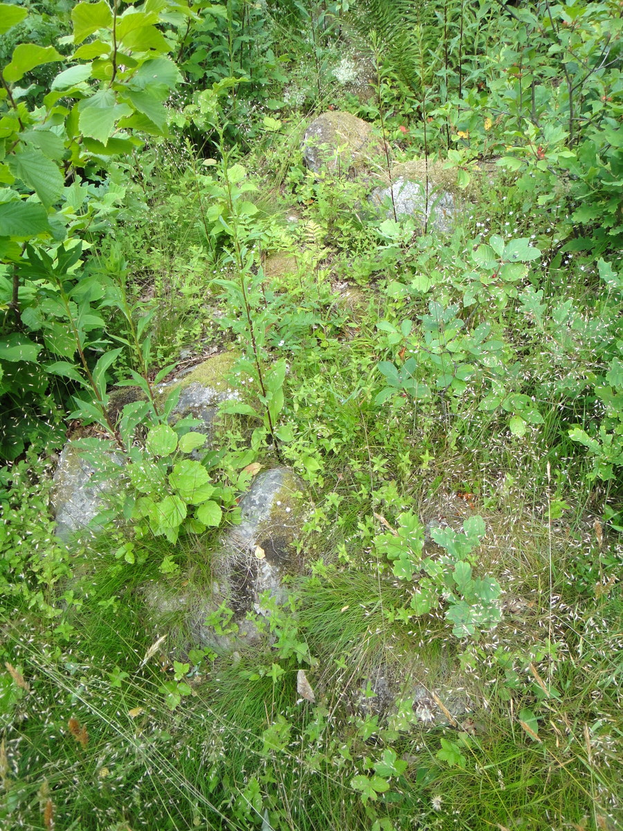 Old tombstone of 3000 years old circular burial grounds near Bullumuiža